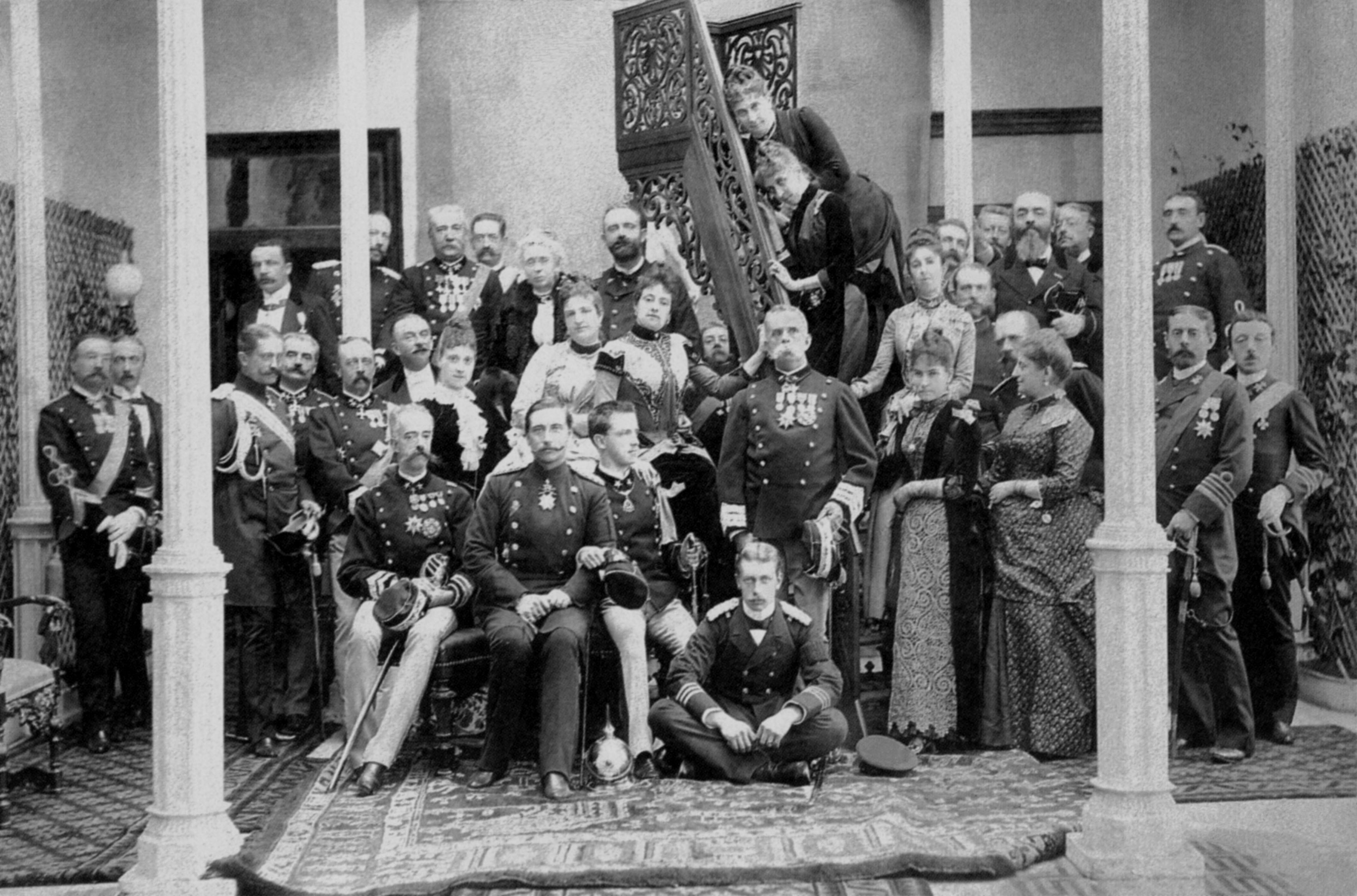 he Kaiser Wilhelm II visits Rome